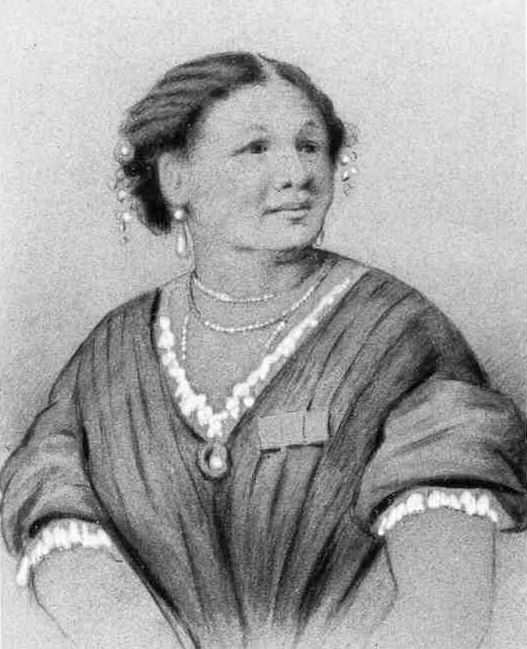 A drawing of Mary Seacole from [1] likely to be PD as Seacole died in 1881.